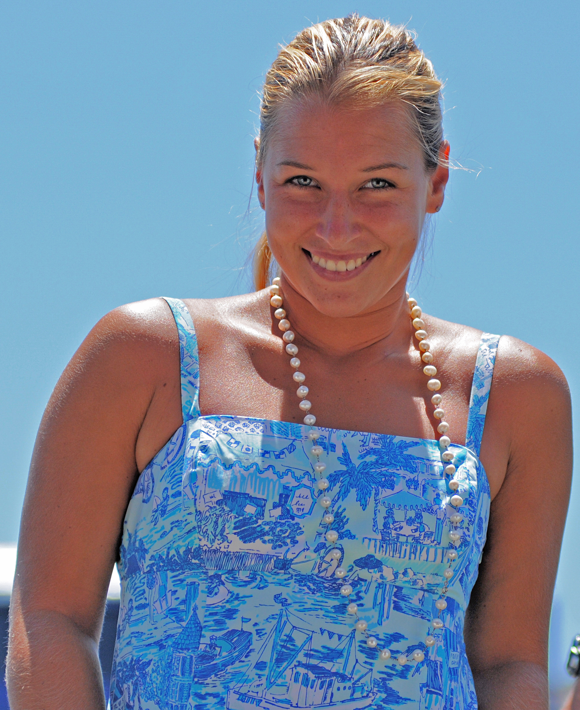 Dominika Cibulková at the 2011 Mercury Insurance Tennis Open